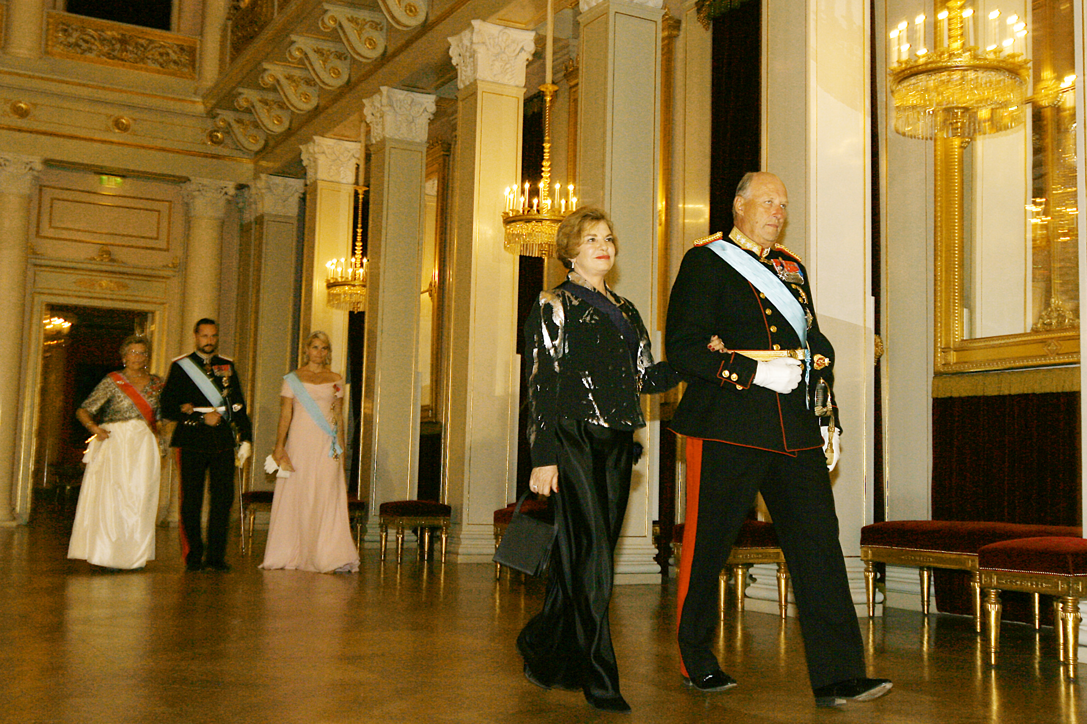 Norway's monarch, Harald V walks the Brazilian First Lady, Marisa Silva to a state dinner. Princess Astrid, Crown Prince Haakon and Crown Princess Mette-Marit in the background.